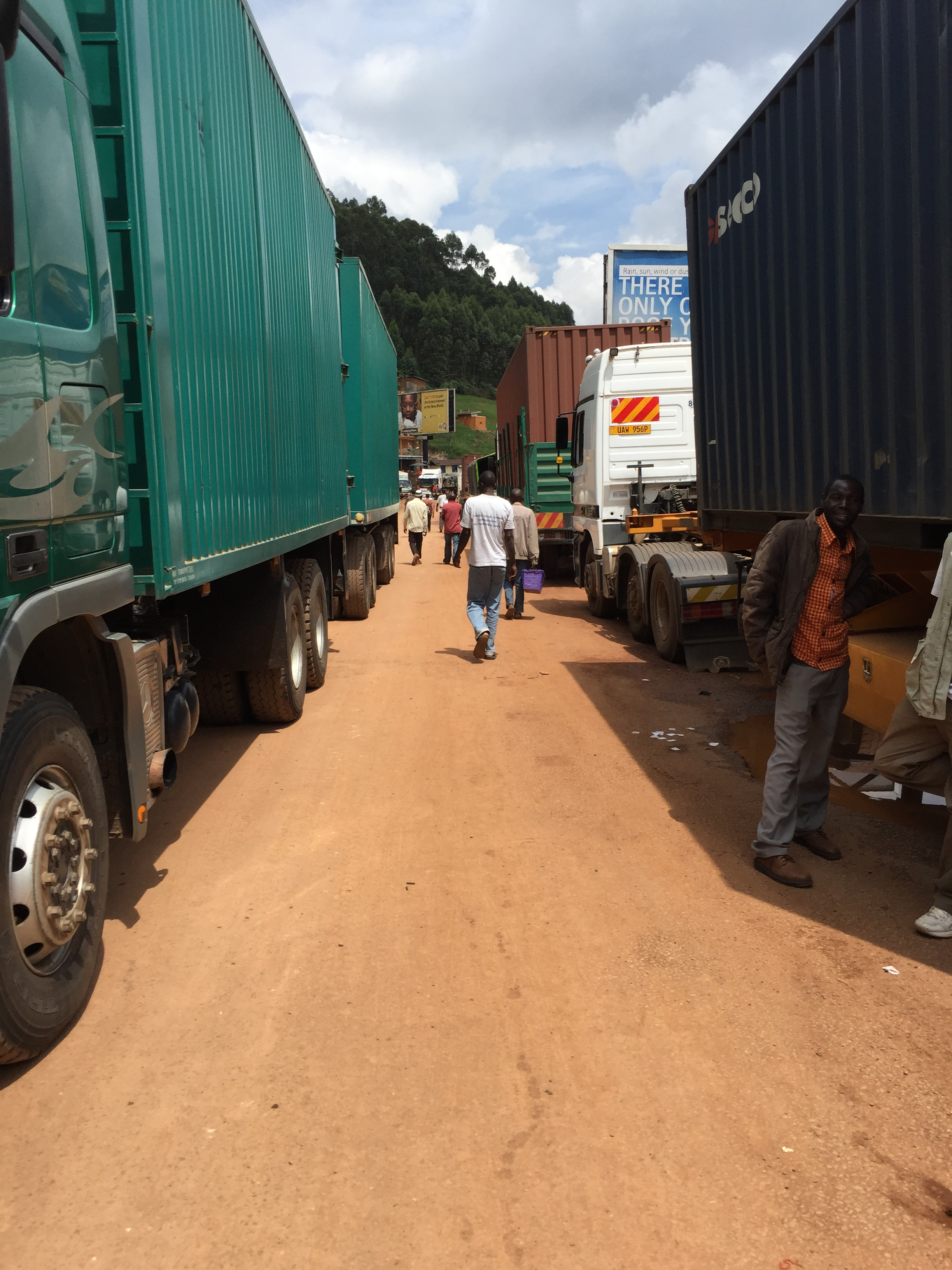 Border between Rwanda and Uganda This is an image of Cultural Fashion or Adornment from Rwanda